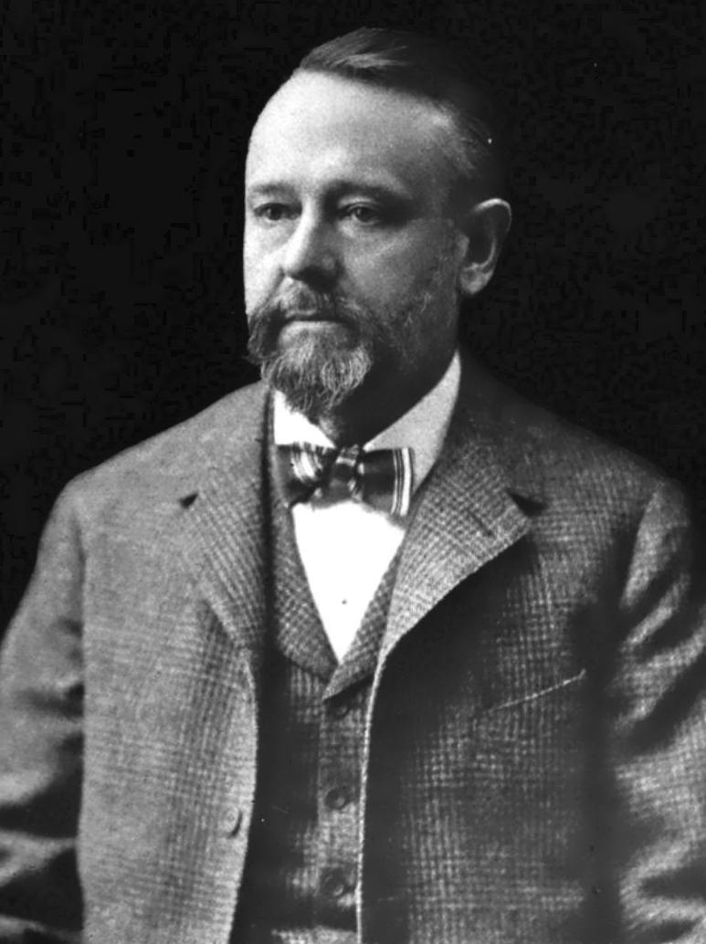 1902 portrait photograph of James Ford Rhodes. Caption: James Ford Rhodes - Author of "History of the United States from the Compromise of 1850 to 1885". Photographed by Notman.